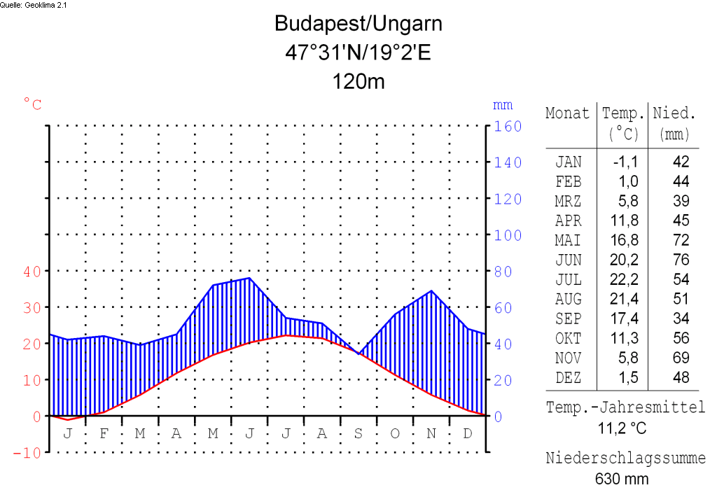 climate chart in the format by Walter and Lieth, metric, °Celsisus and millimeters, made with Geoklima 2.1